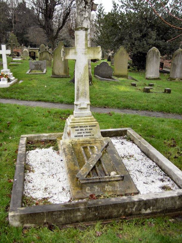 Tombstone of Albert Neilson Hornby in St Mary's, Acton churchyard, near Nantwich, Cheshire